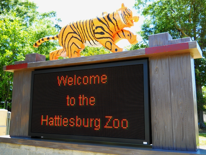 Entrance sign at the Hattiesburg Zoo.